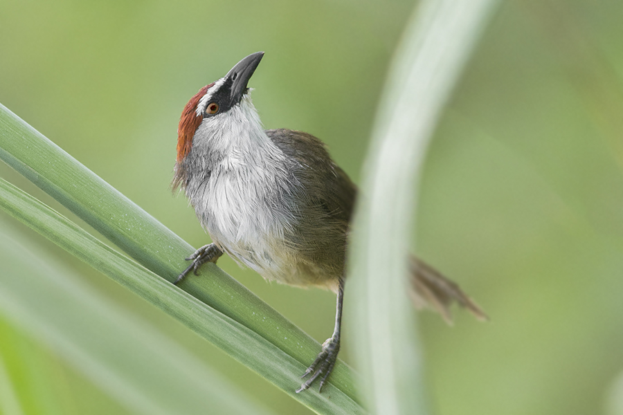 The specie Chestnut-capped Babbler had been photographed during the bird photography tour of GoingWild in the month of October from Baur reservoir area, Uttarakhand, India on 05.10.2014.